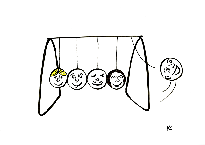 Illustration for crowdsourcing.